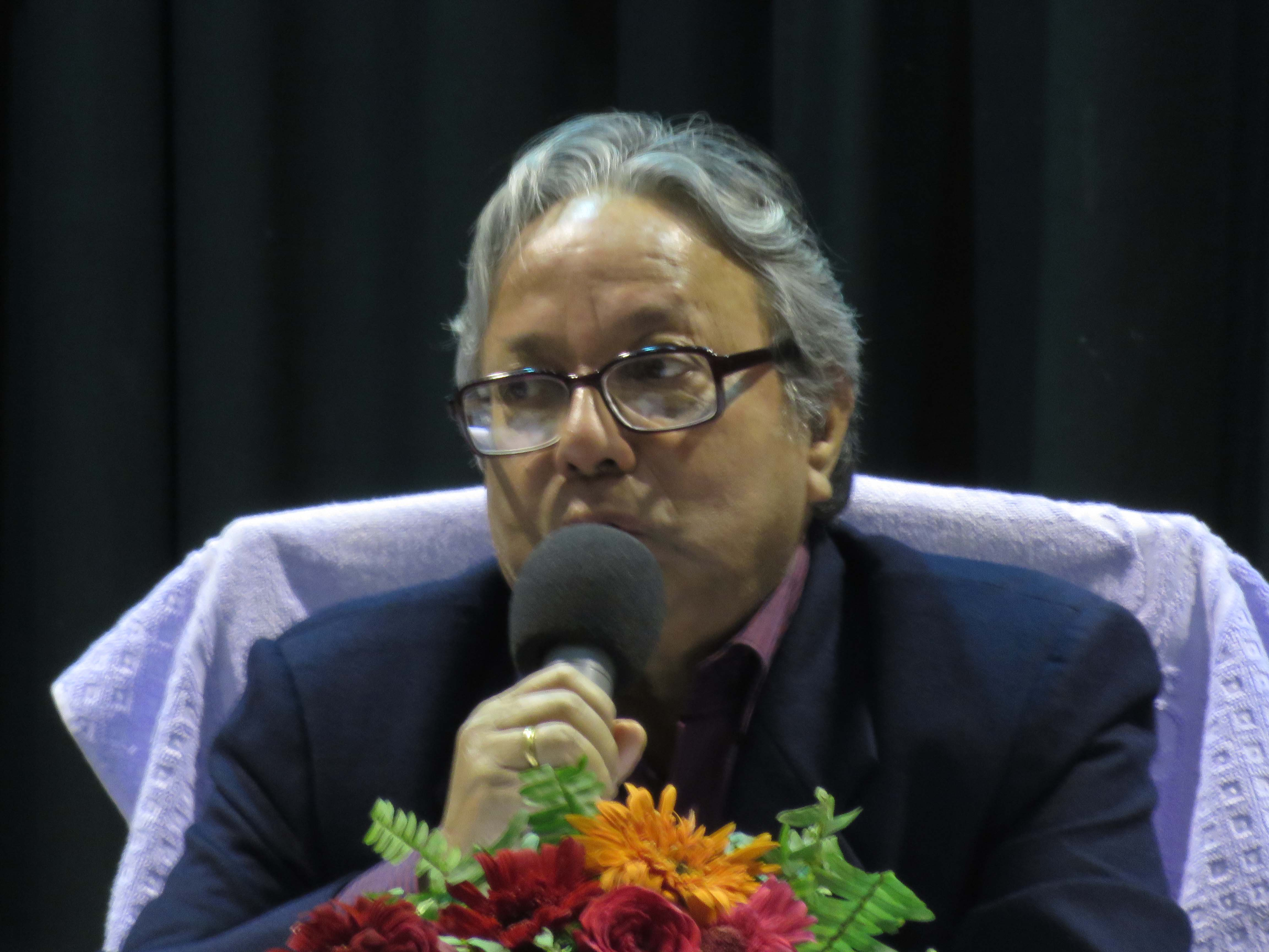 Odia Wikisource meeting at Bhubaneswar, Odisha on 28th November 2014.